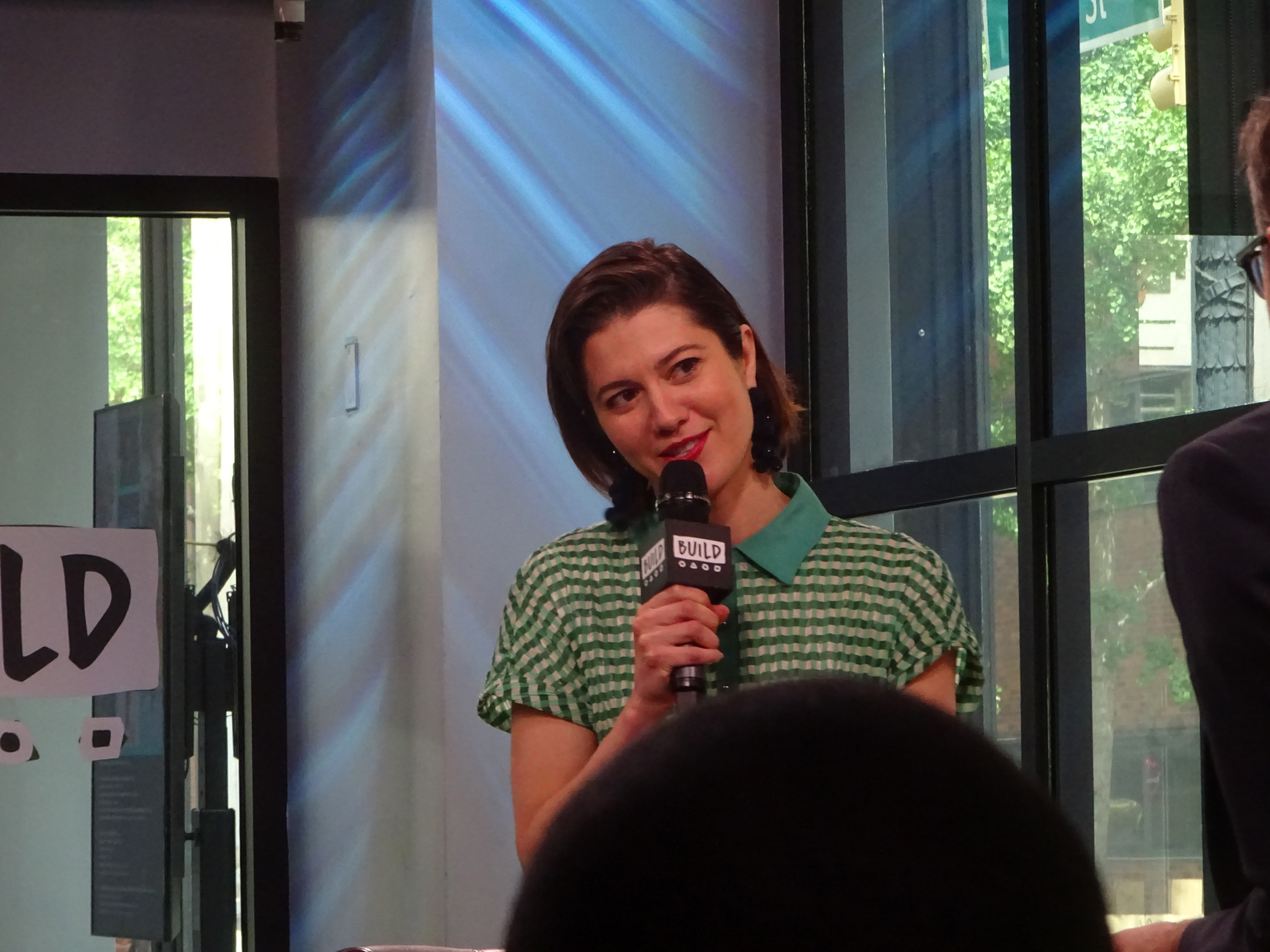 Great interview about Fargo.